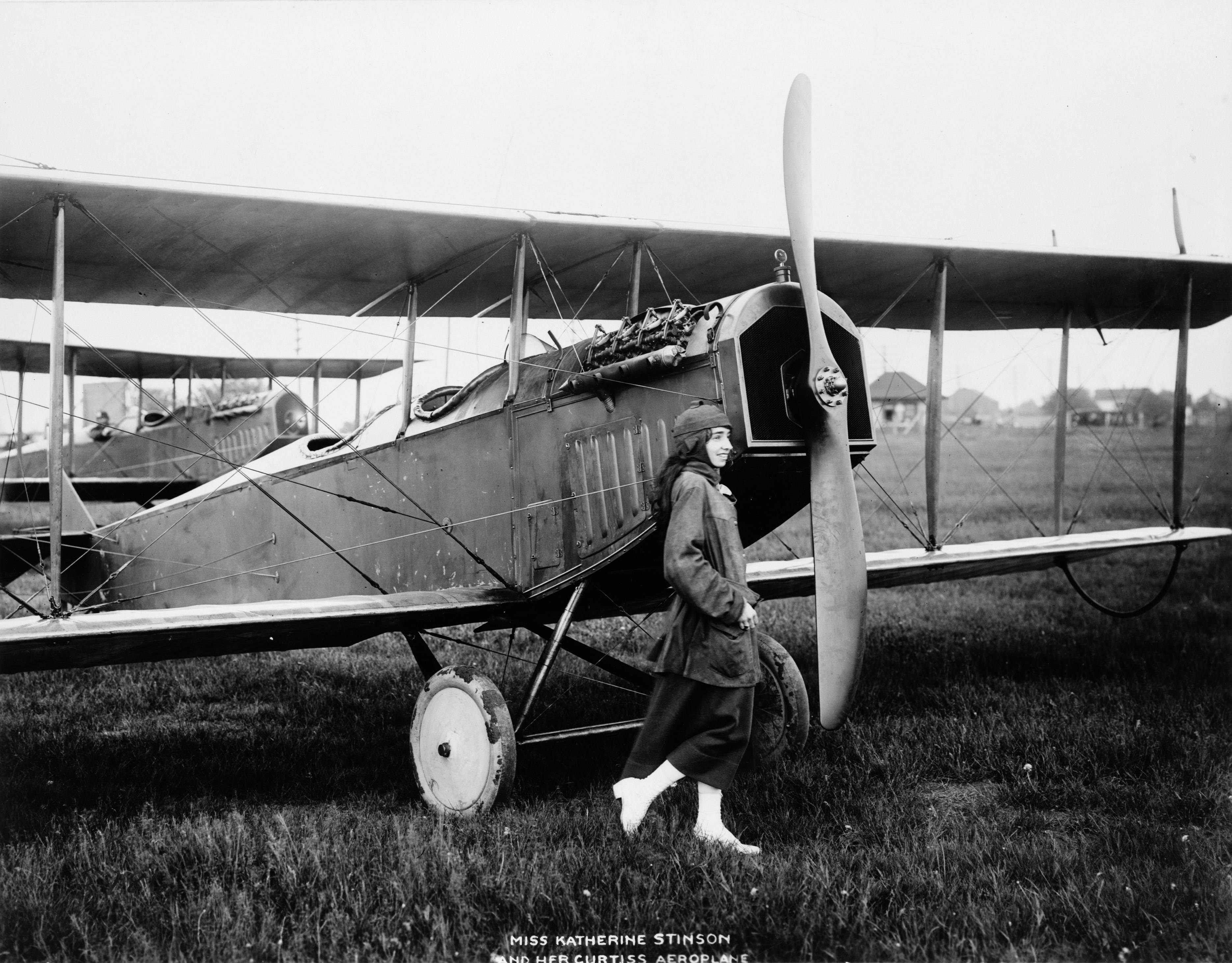 Katherine Stinson, the nineteen year old girl aviator preparing for her flight from Buffalo to Washington, D.C., in connection with the American Red Cross week.